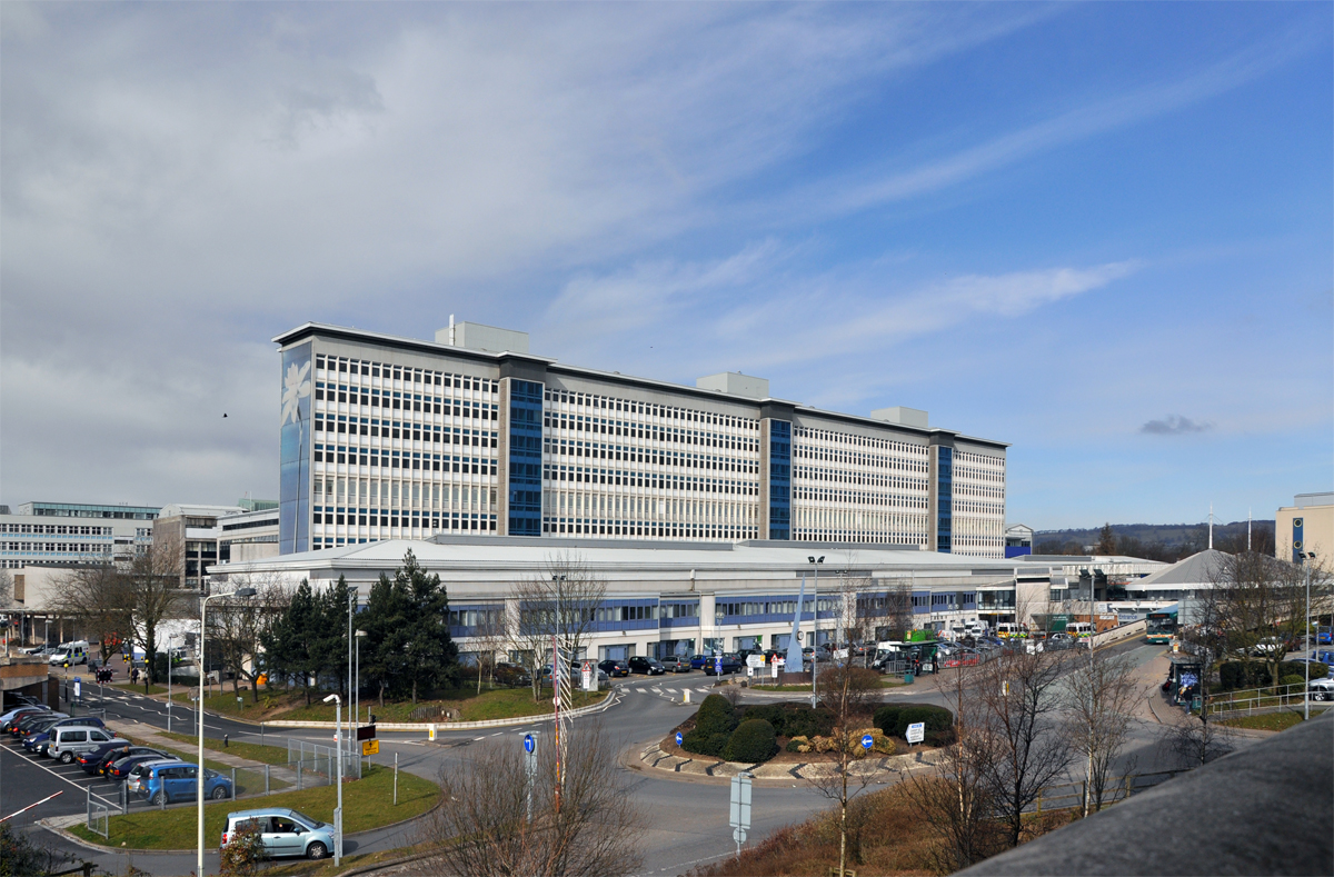 University Hospital of Wales, Heath Park - Cardiff Tower block on this huge hospital complex.